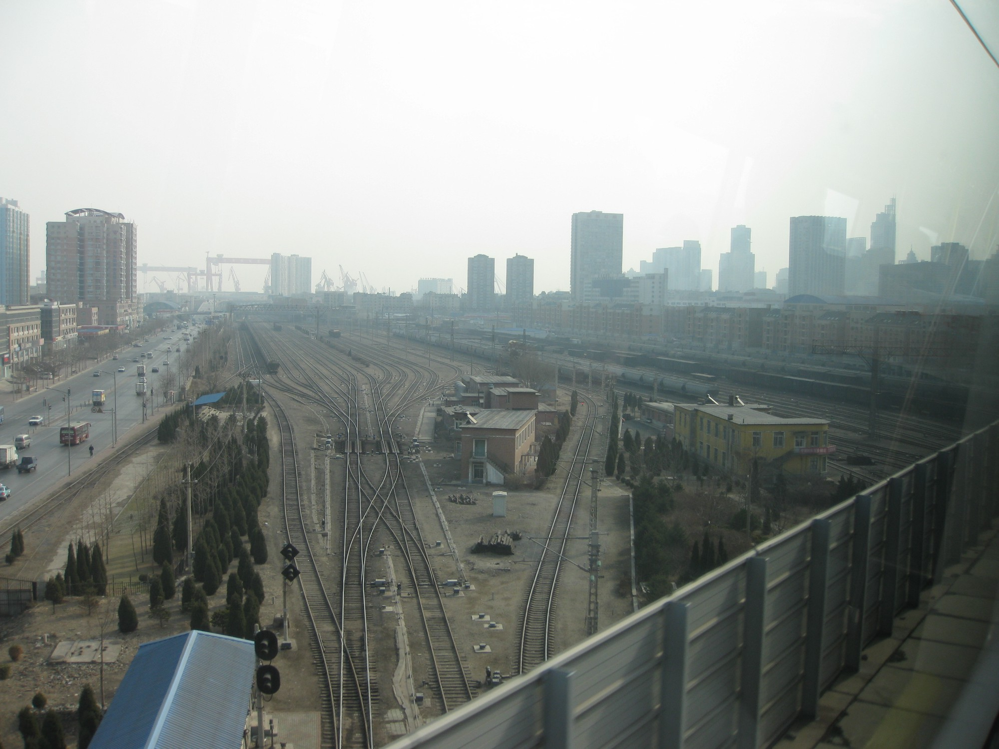 Dalian North Station